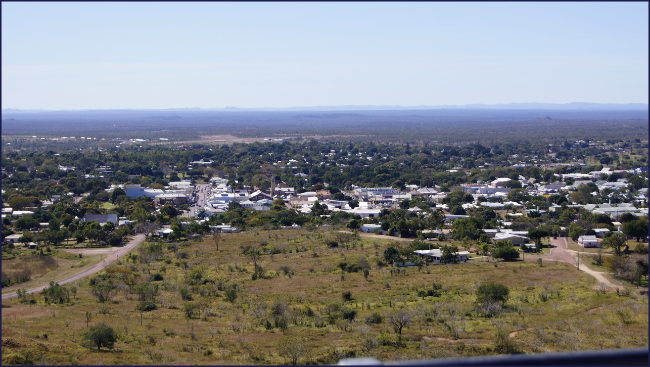 Towers Hill lookout, looking over Charters Towers town. read more here